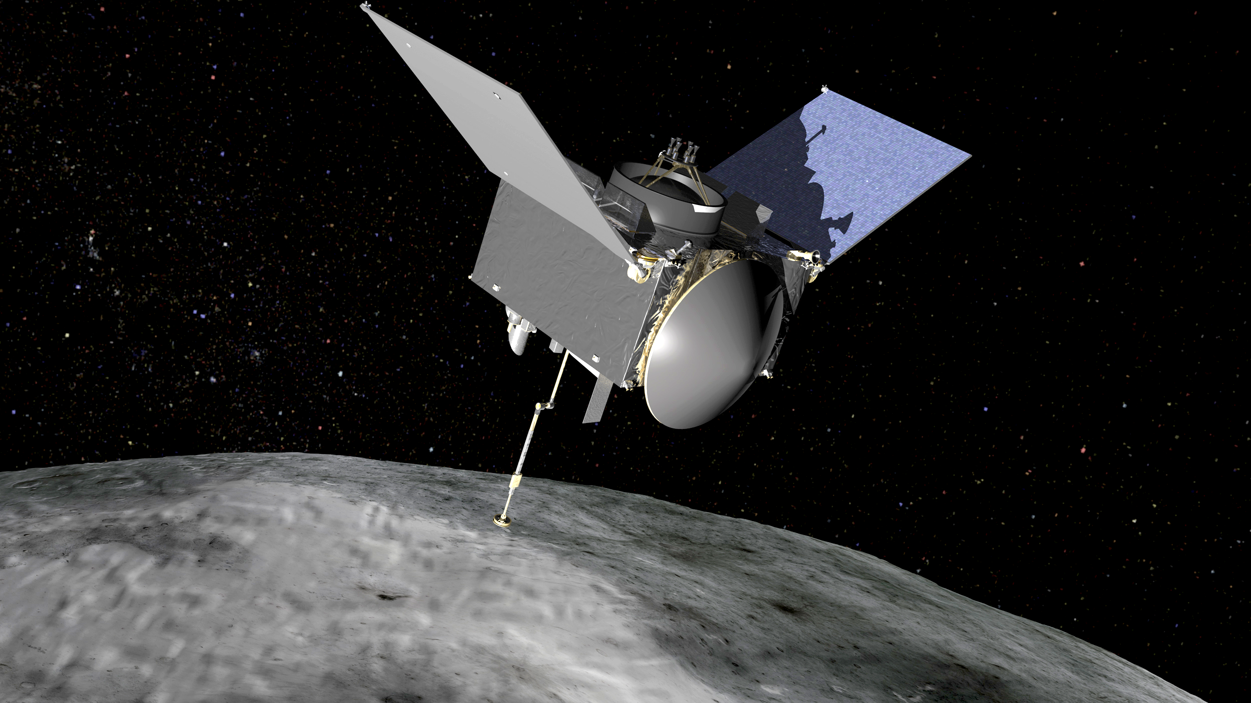 Artist’s conception of the OSIRIS-REx spacecraft at Bennu asteroid.